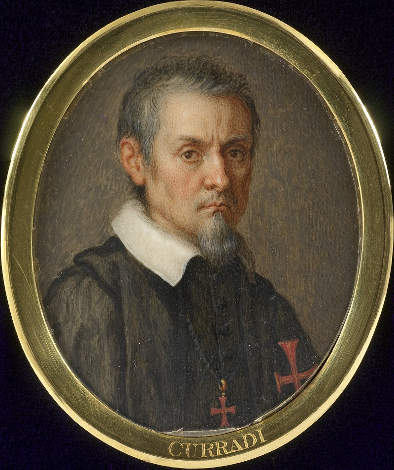 Portrait de Francesco Curradi